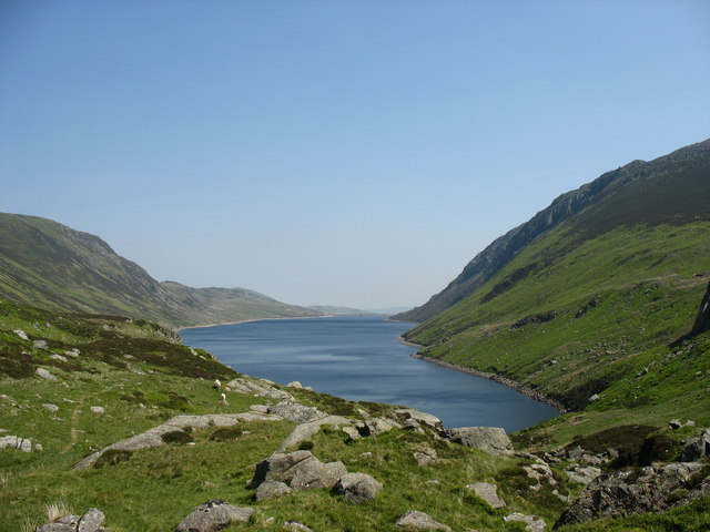 Llyn Cowlyd. With an area in excess of 100ha, Llyn Cowlyd is the deepest lake in Snowdonia. The Cwm and its lake were purchased by Colwyn Bay Council in 1891 and the lake enlarged by the building of a dam. Water is piped from the dam end to Colwyn Bay a distance of 18 miles. The reservoir, now owned by Dwr Cymru/Welsh Water, also supplies Conwy and Deganwy as well as the aluminium works at Dolgarrog.